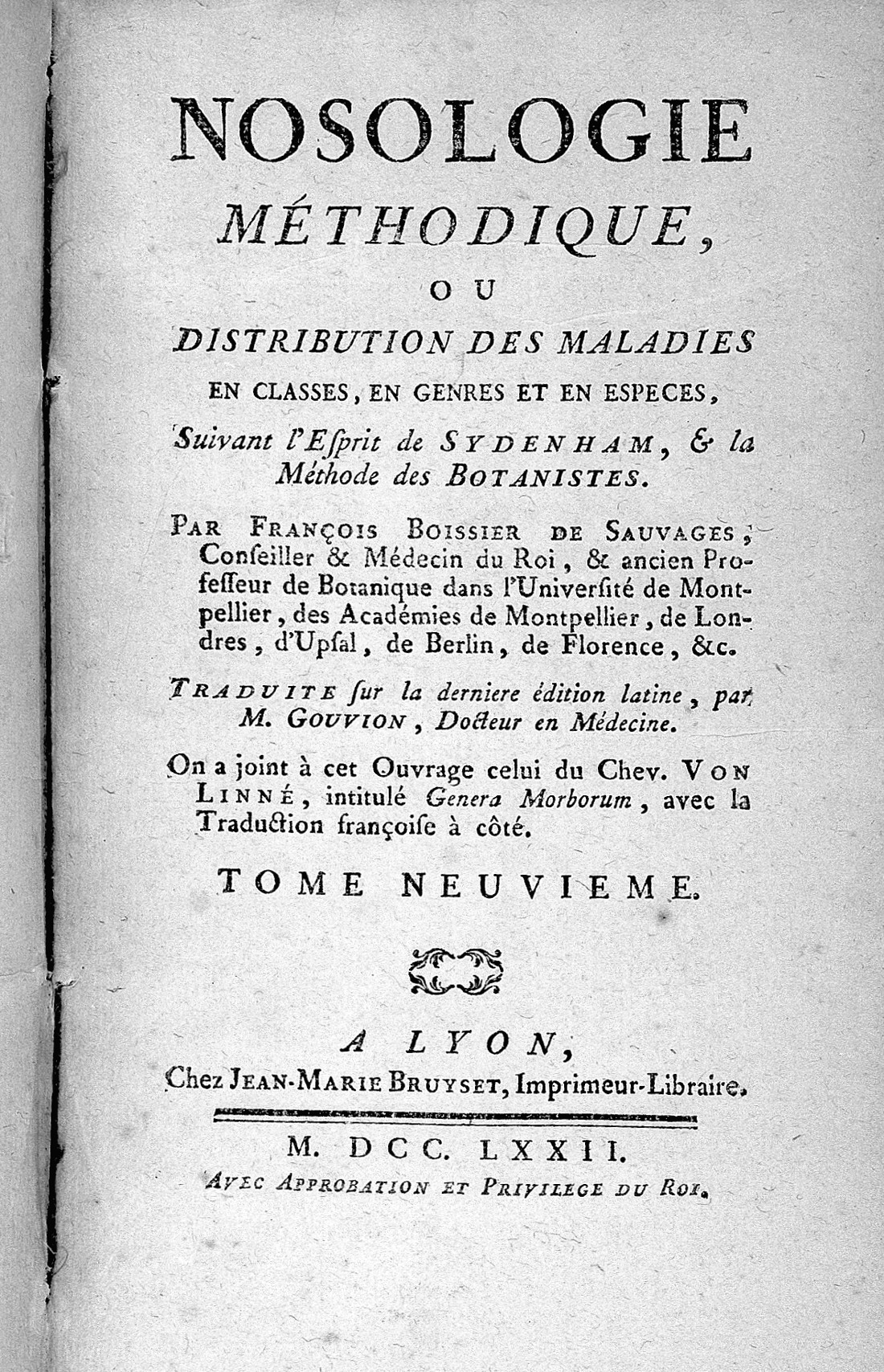 Title page. Rare Books